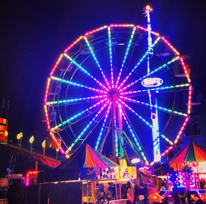 Sideshow Alley at the Proserpine Show June 2014